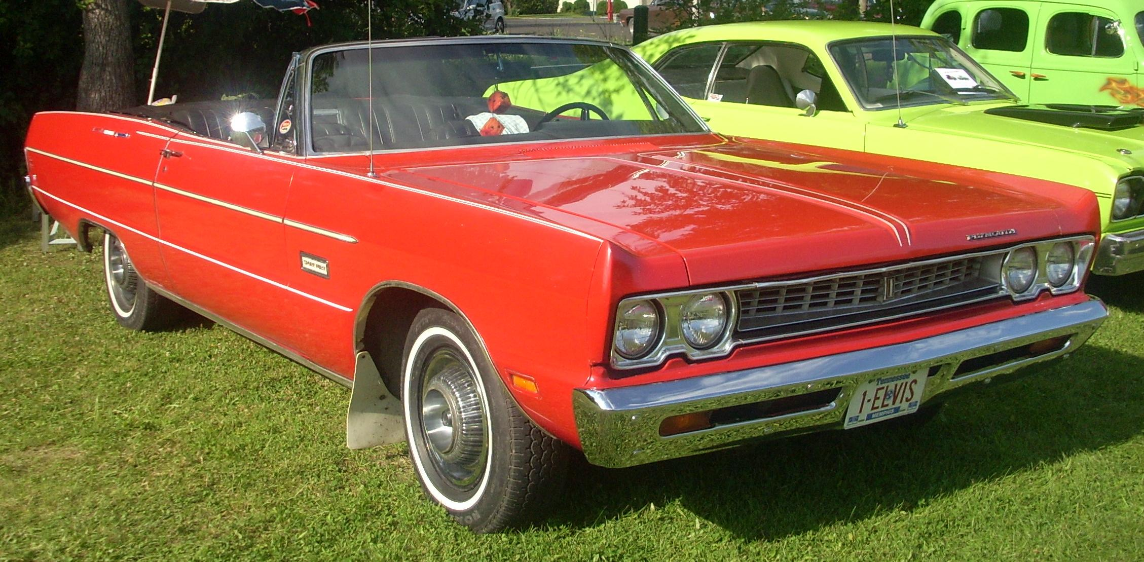 1969 Plymouth Sport Fury photographed at the Rassemblement Rigaud Car Show.